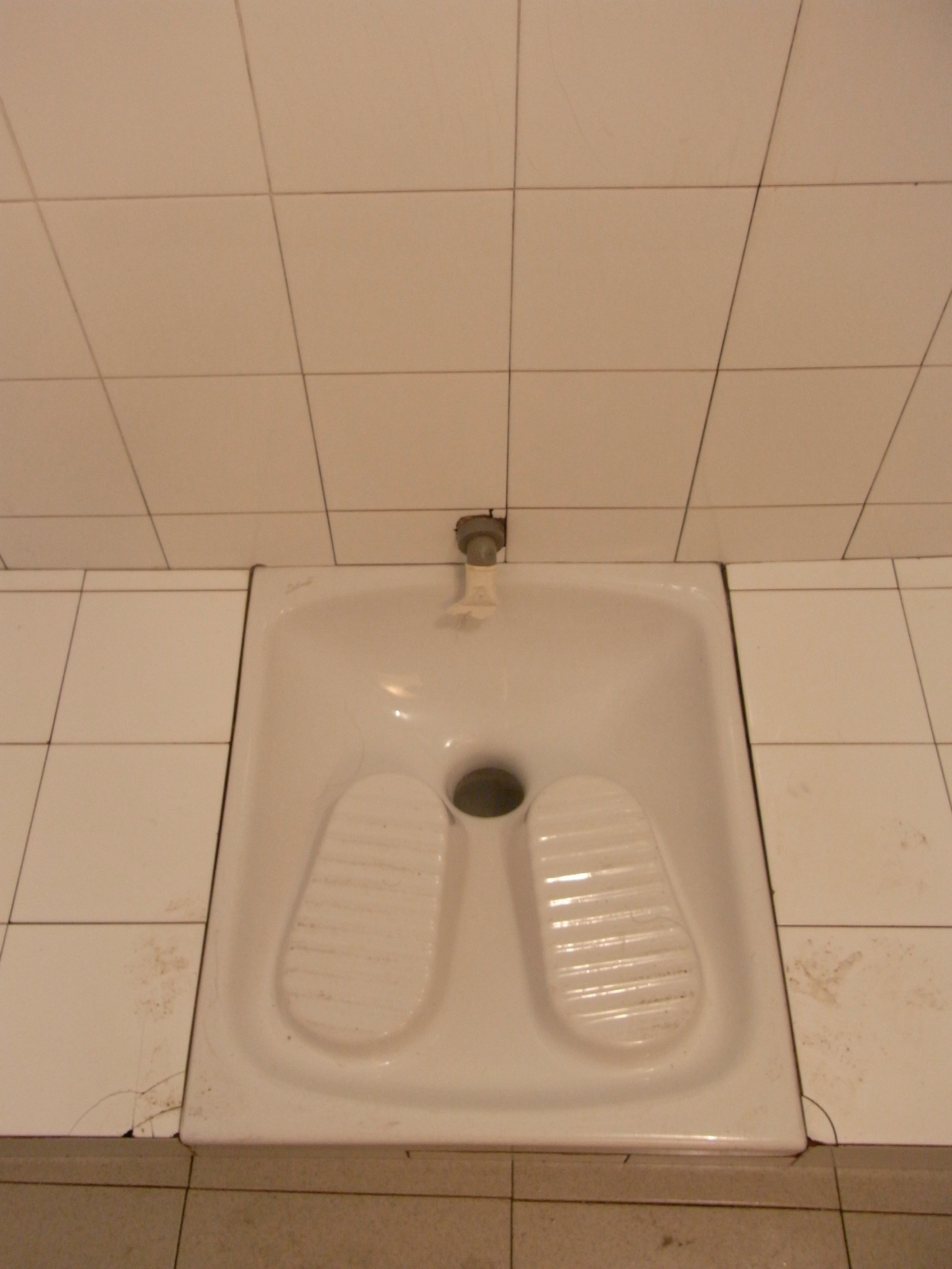 Latrina in via di Ripetta